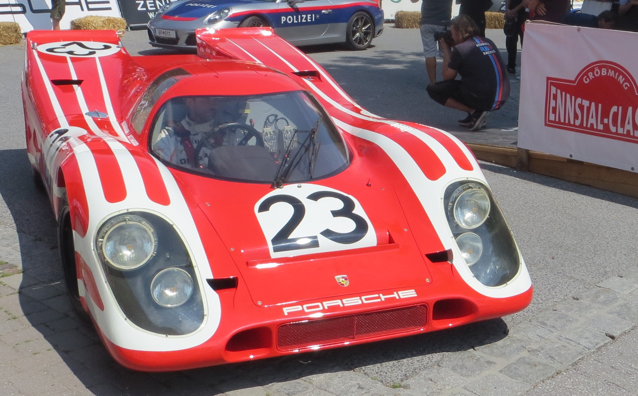 Porsche 917 Kurzheck 4.5L, winner 1970 24 Hours of Le Mans (driver: Neel Jani)